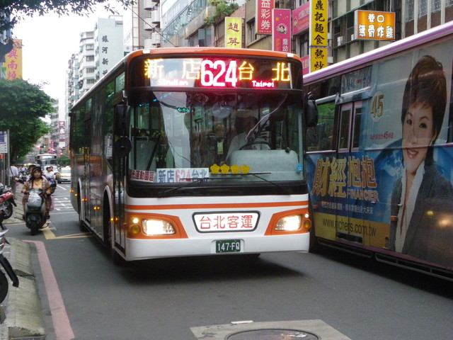 Taipei bus 2009Y. New Bus 624.